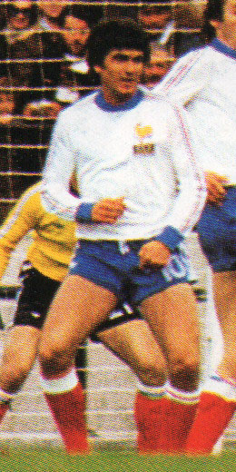 Jean-Marc Guillou of France during the group stage match vs Italy of FIFA World Cup 1978 in Argentina.